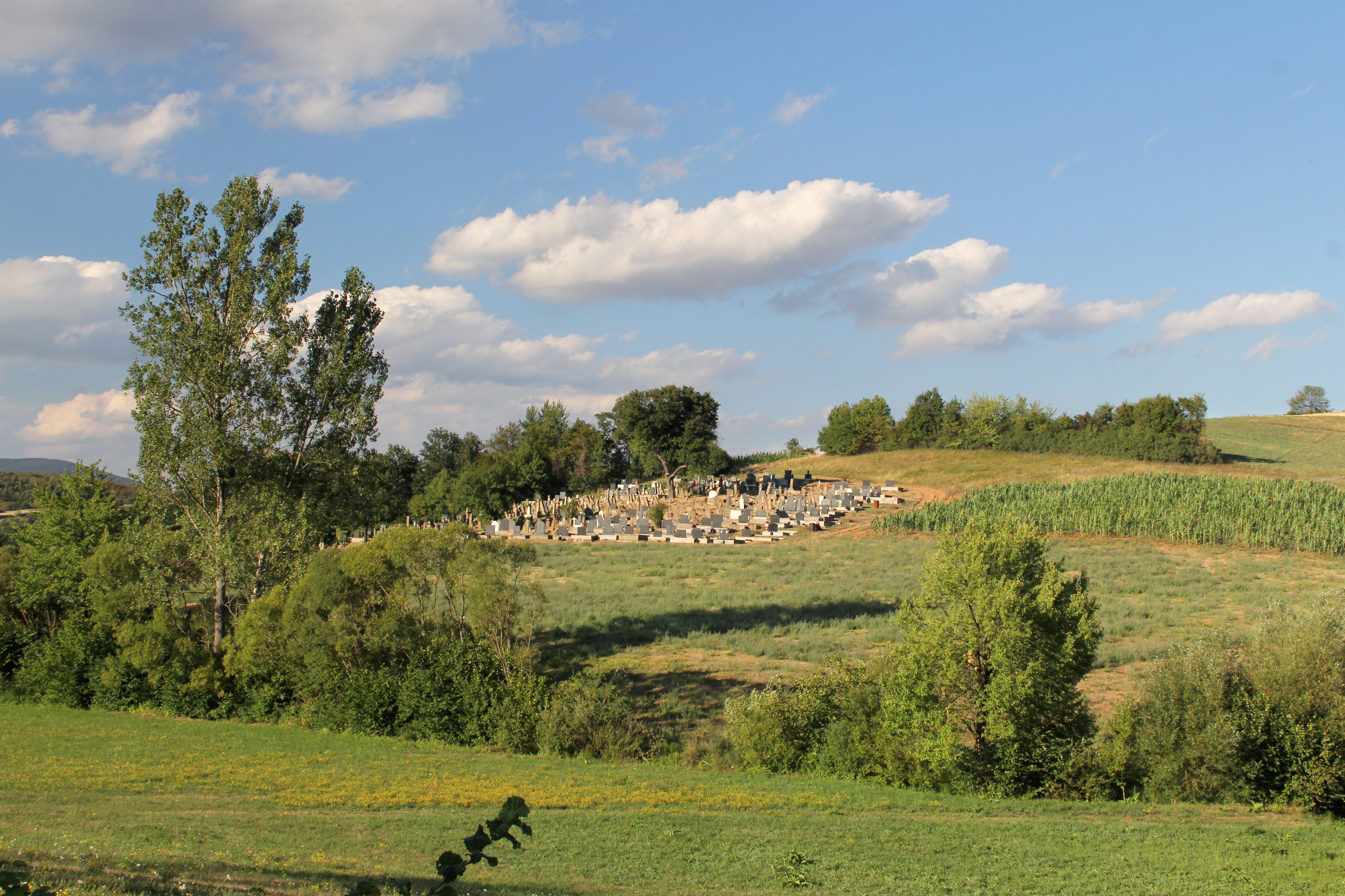 Old tombstones in a graveyard in the village of Belo Polje (the municipality of Gornji Milanovac), Serbia.